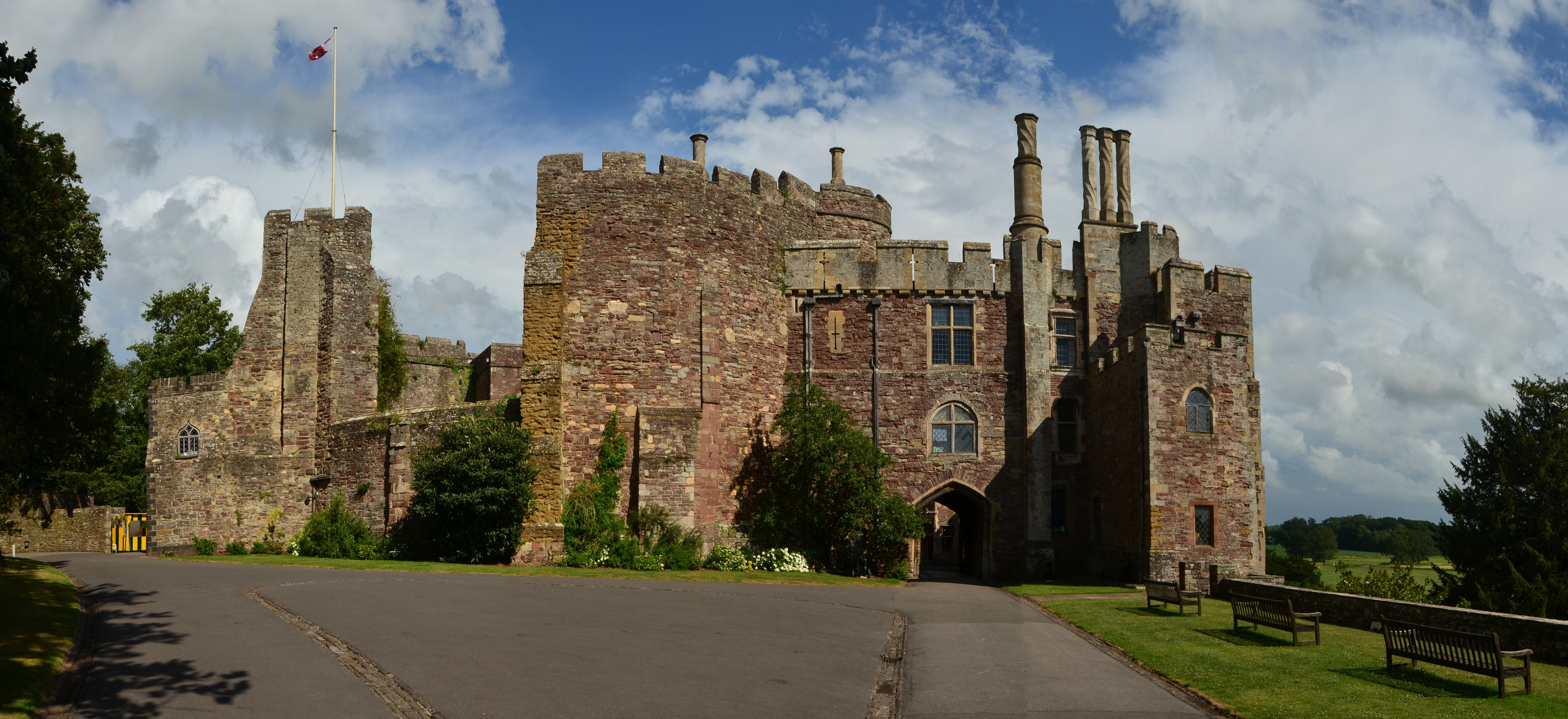 Berkeley Castle - Perfect Day at Last!